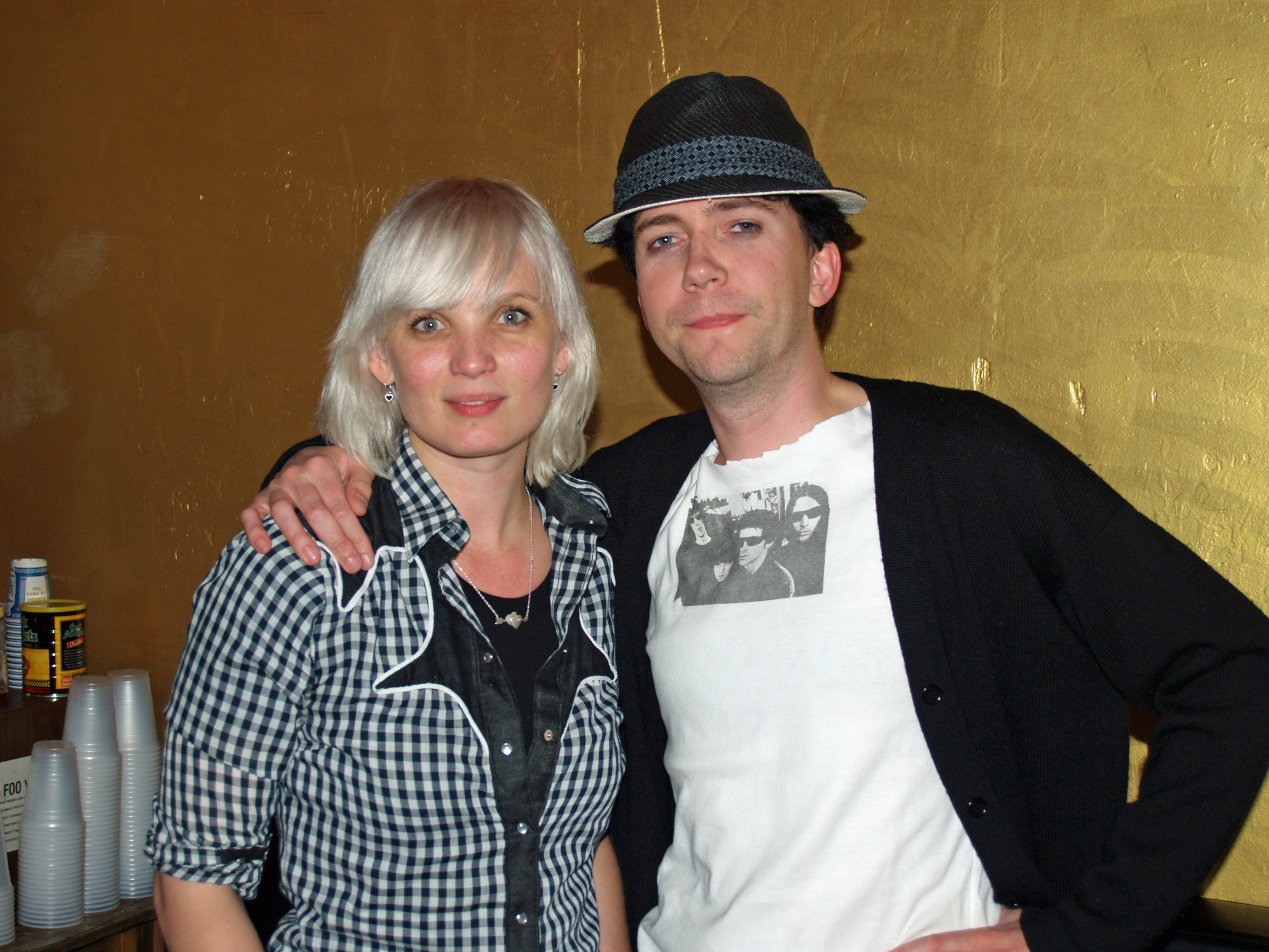 The Raveonettes